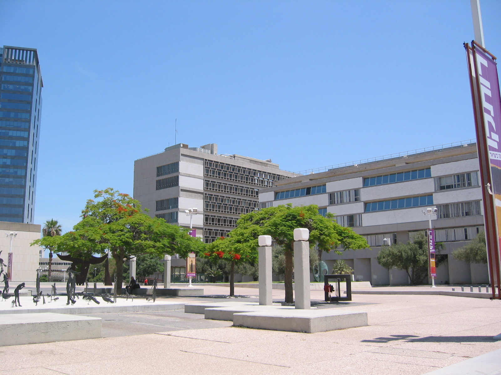 Court House, Shaul Hamelech, Tel Aviv